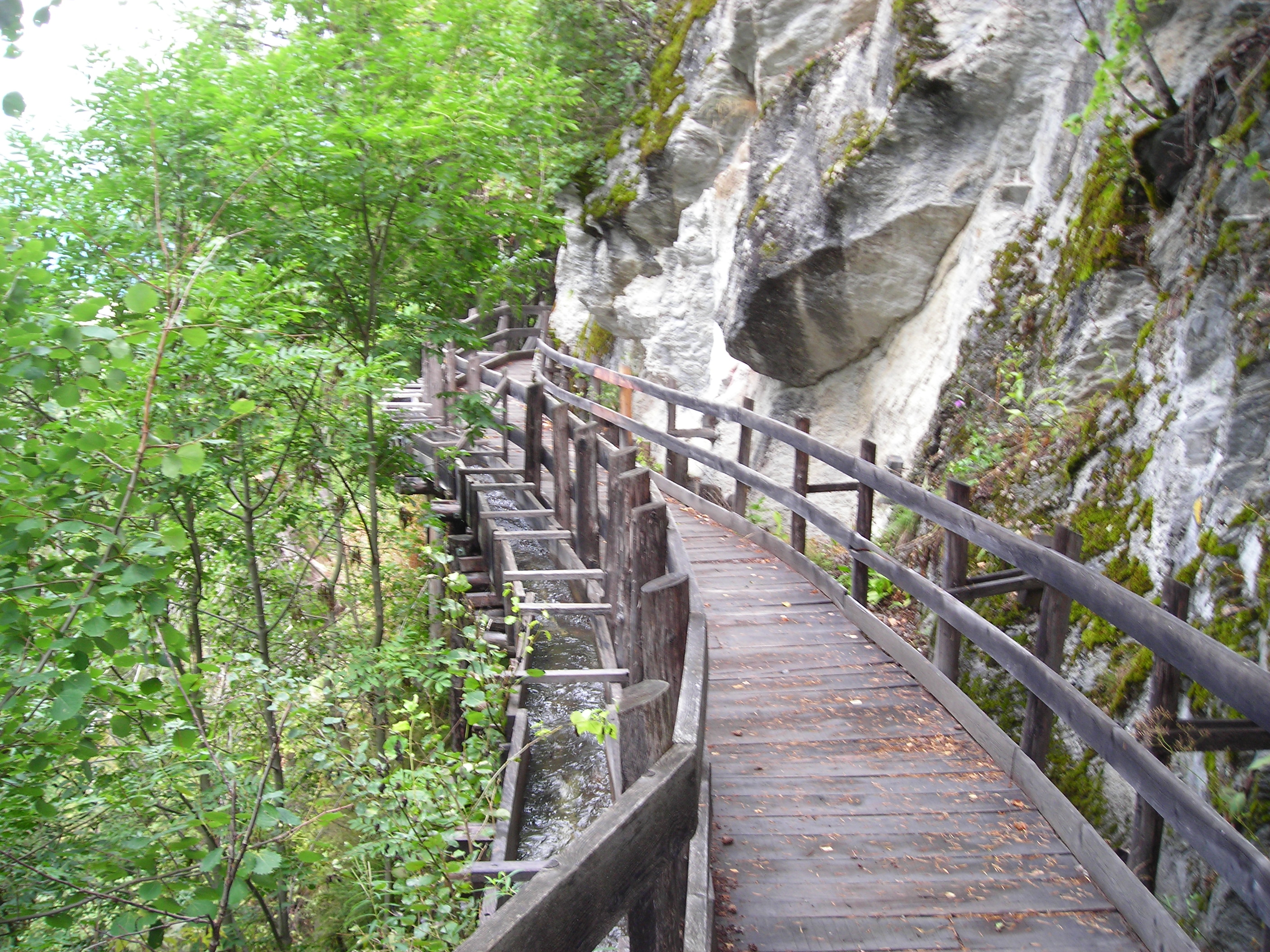 Grand Bisse de Vex